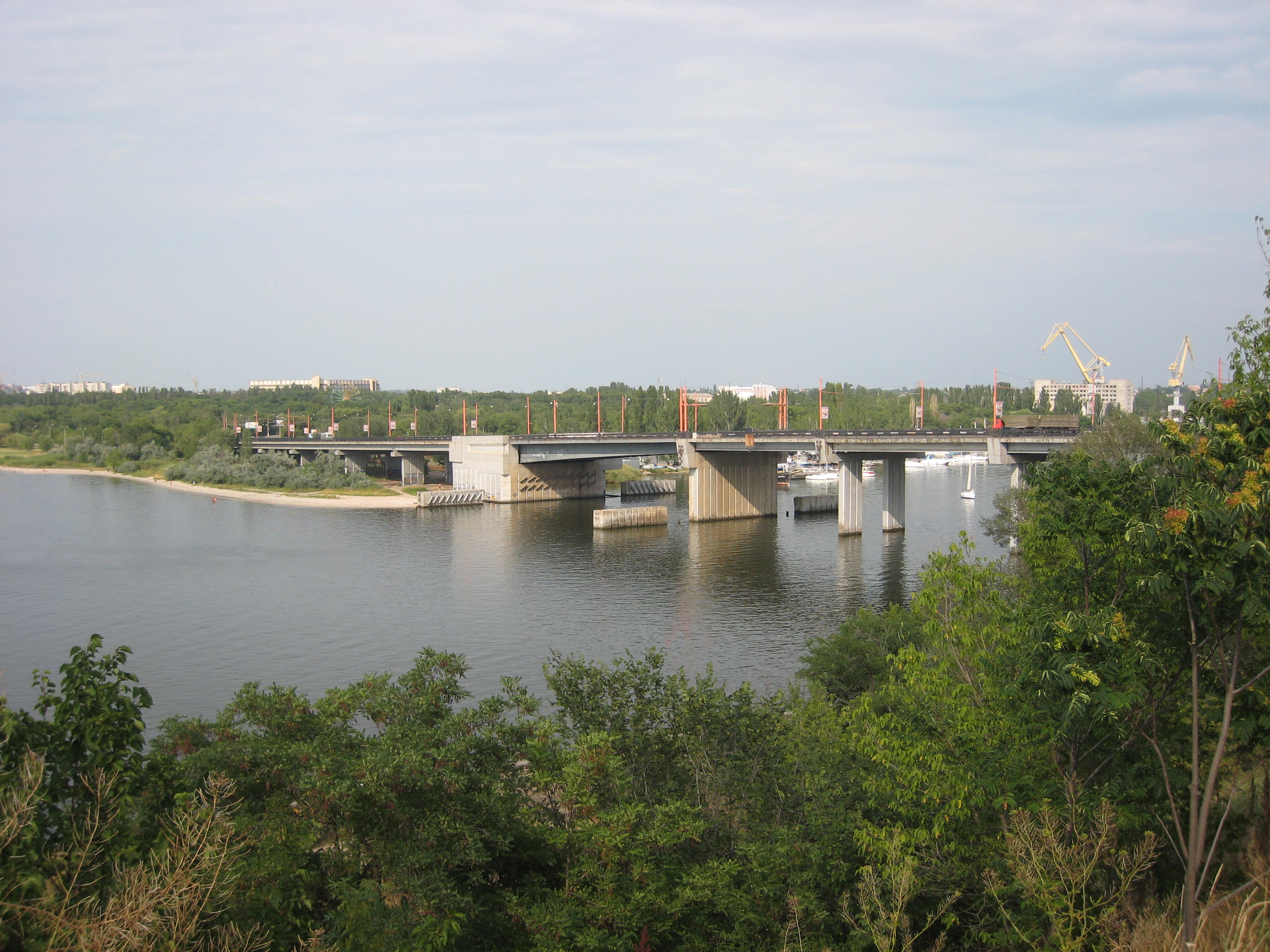 Ingulsky bridge, Mykolaiv